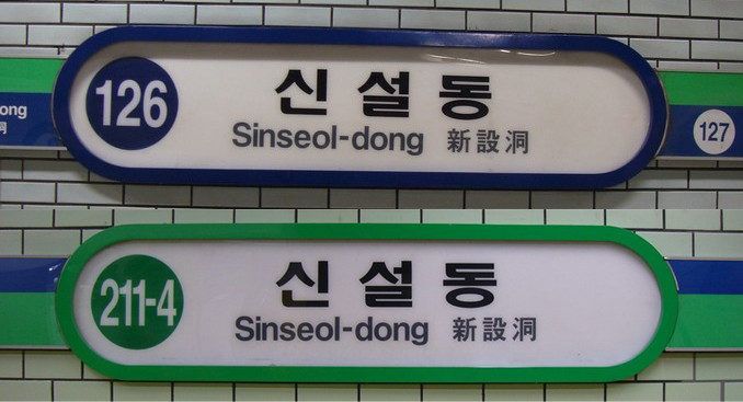 Sinseol-dong Station